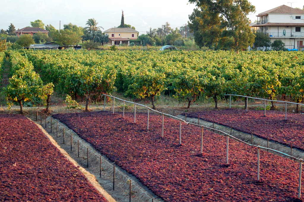 Drying of Zante currants on a farm near Tsilivi, Zakynthos